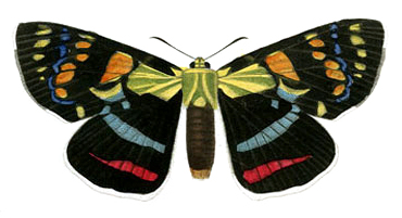 Illustration of the Agarista agricola moth